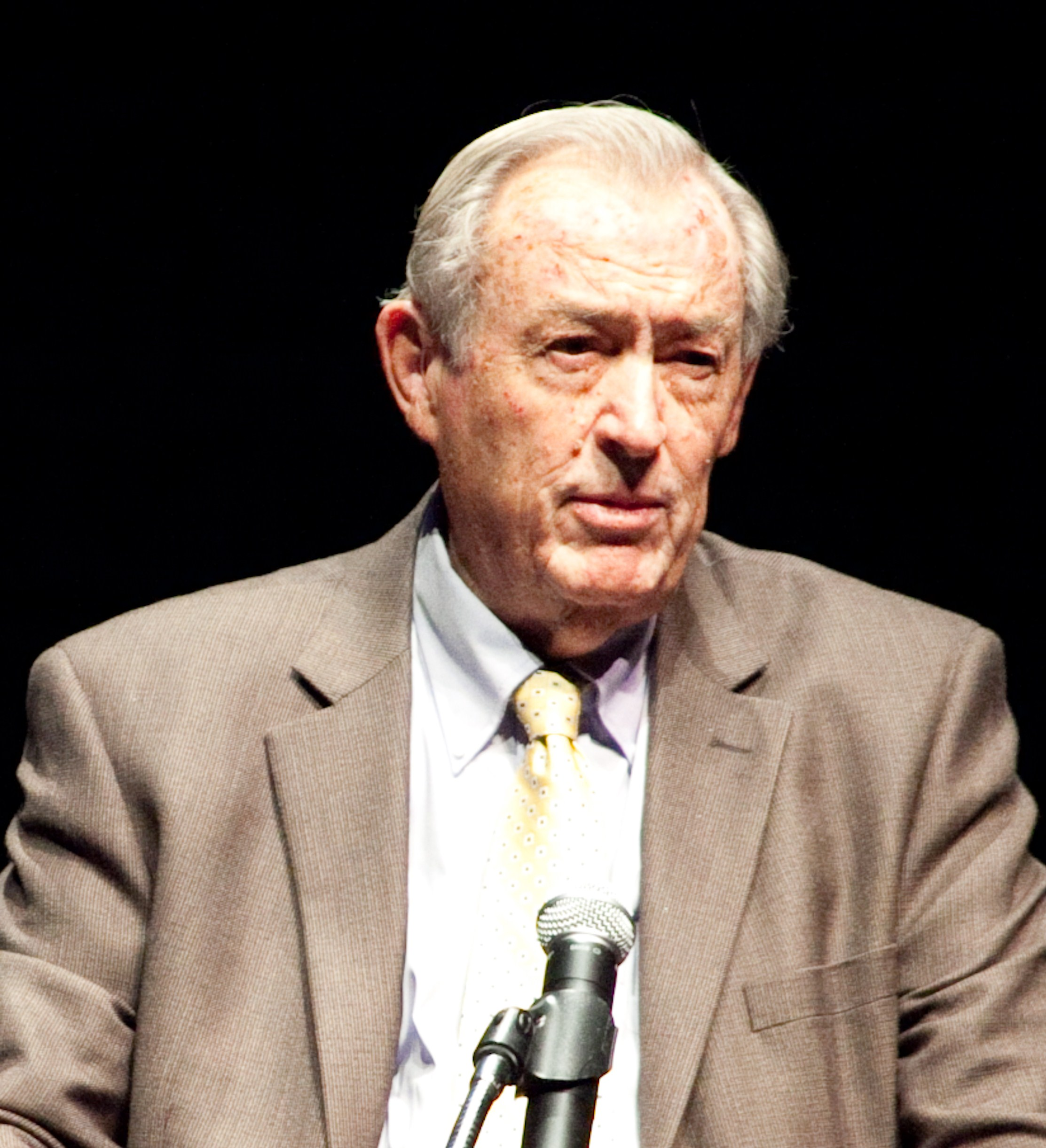 Richard Leakey at the Progressive Forum